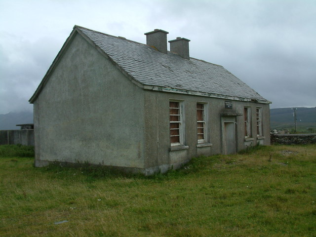 Cregganbaun School. This old National School on a windy exposed hilltop is now disused - local kids travel to the modern schools at Killeen or Louisburgh.